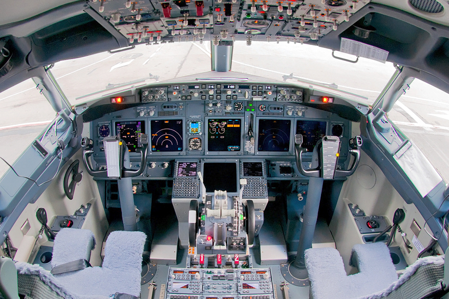 VQ-BKW (cn 37085/3654) Cockpit a new aircraft for S7 - Siberia Airlines in color scheme ONE WORLD Alliance.